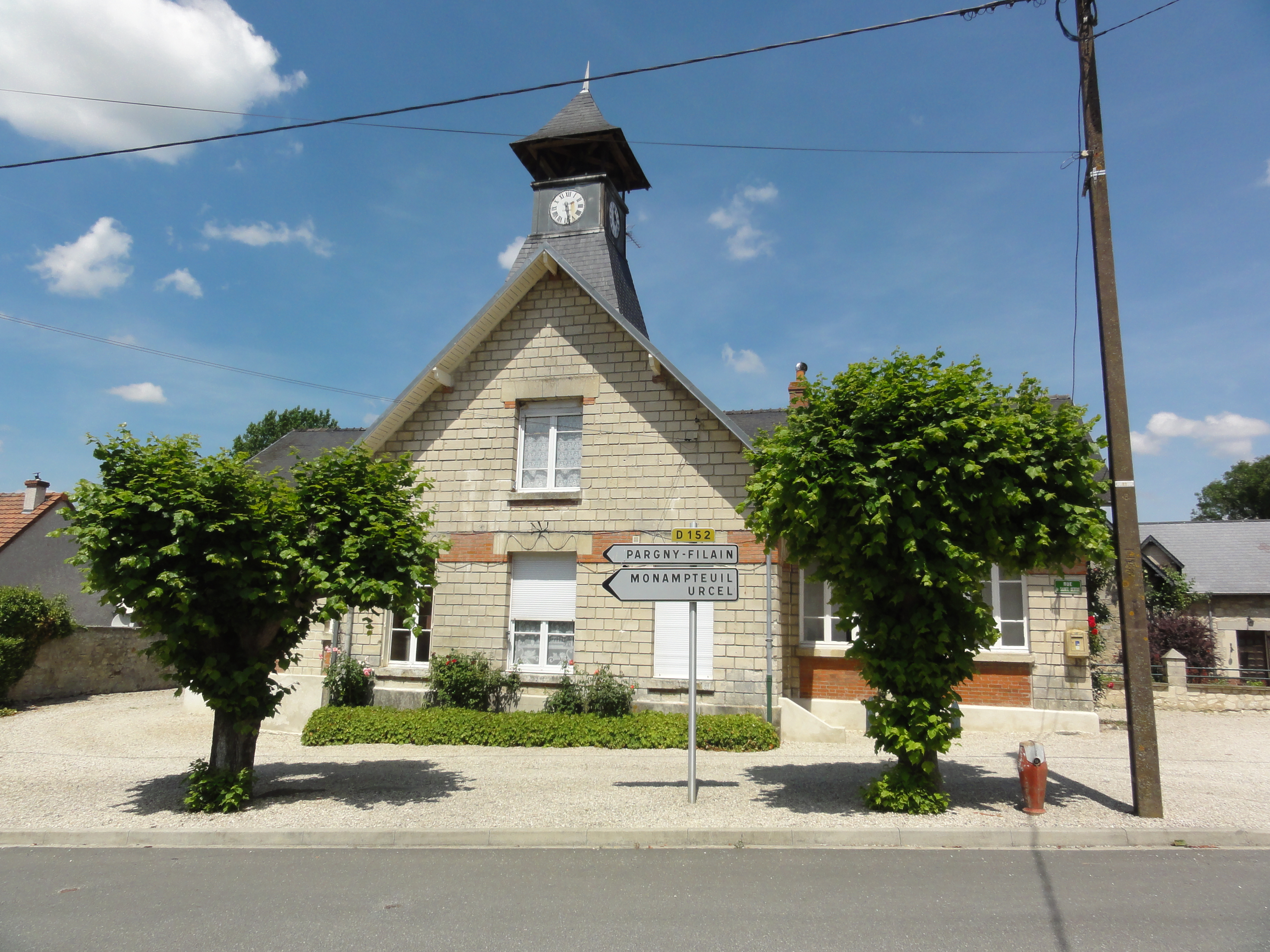 Filain (Aisne) mairie